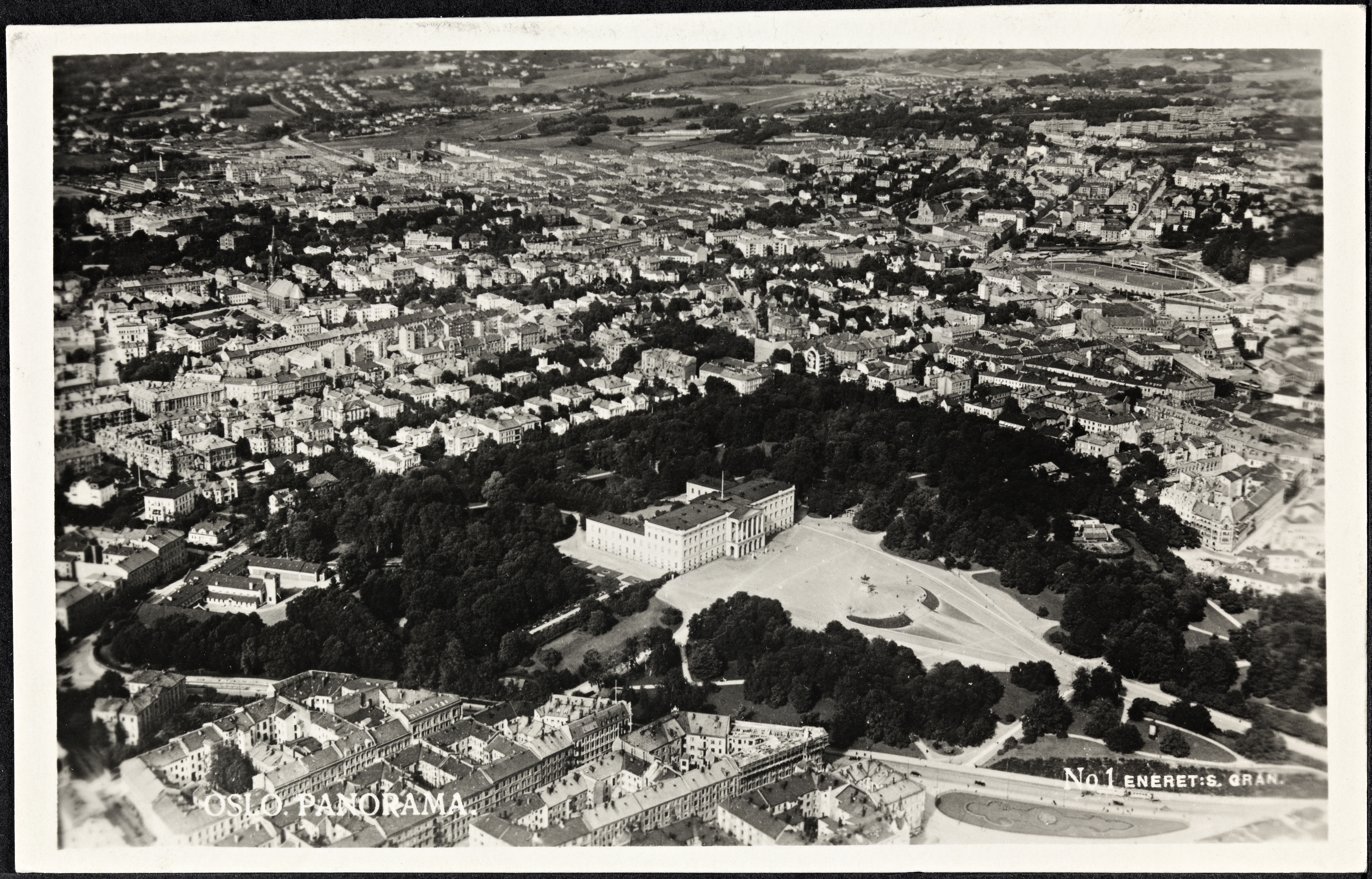 Beskrivelse / Description: Postkort / Postcard. Flyfoto / Aerial photography. Dato / Date: ca 1928 Sted / Place: Oslo Fotograf / Photographer: ukjent / unknown Utgiver / Publisher: S. Gran Digital kopi av original / Digital copy of original: s/h postkort, sølvgelatin Eier / Owner Institution: Nasjonalbiblioteket / National Library of Norway Lenke / Link: Bildesignatur / Image Number: bldsa_PK05607